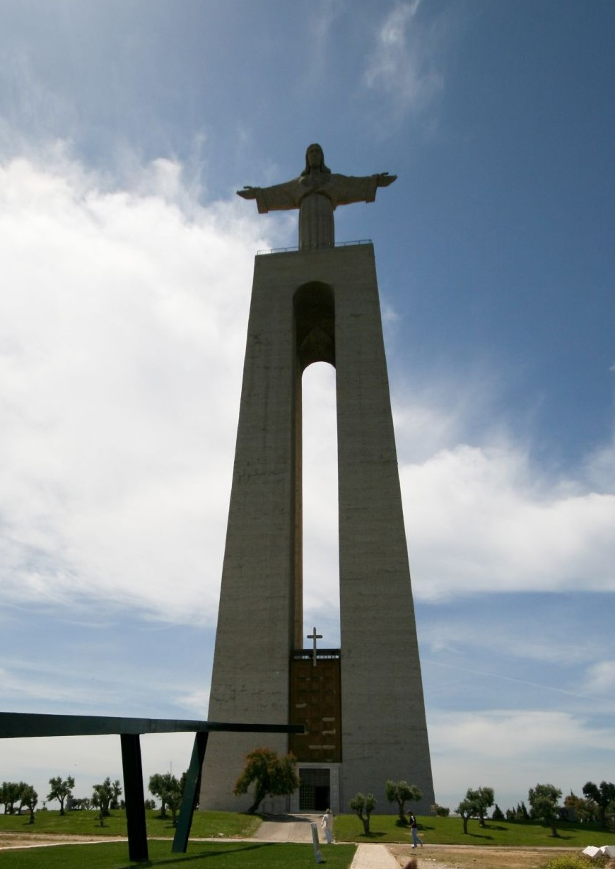 This smaller copy of the giant statue of Christ in Rio de Janeiro is actually in Cacilhas, on the opposite side of the Tagus river from Portugal. Great views from up here across to Lisbon, Belem and up the coast to Estoril and Cascais. The statue was started in 1950, completed in 1959 - Salazar's time, though you won't find much about that on the official plaque on the monument. The church vowed in 1940 that the statue would be built if Portugal was saved from WWII. It was - Portugal remained neutral (with Spain, Switzerland and Sweden) though it provided 10,000 'volunteer' soldiers to the Allies.